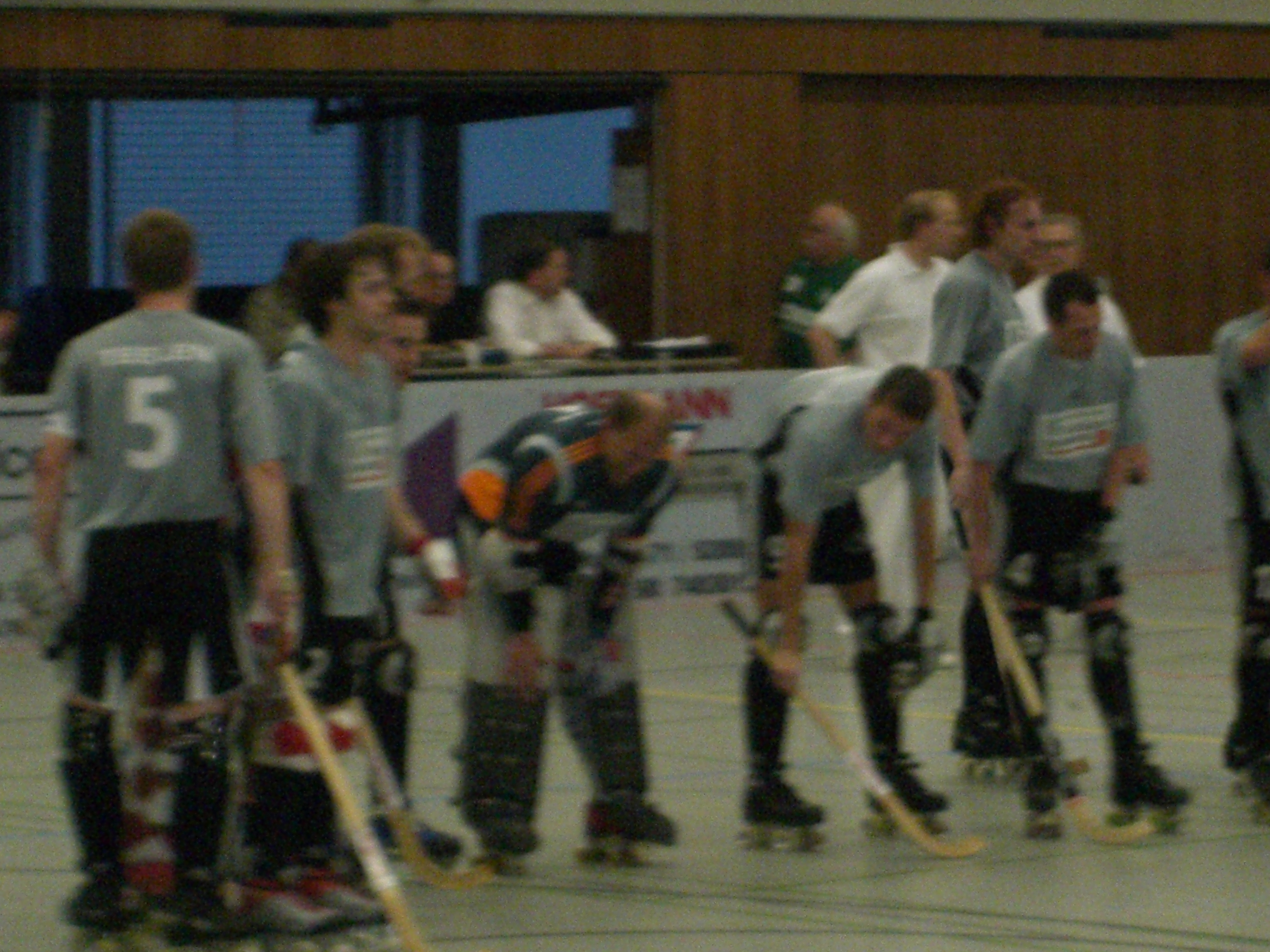 Jubel nach dem Sieg der ERG Iserlohn im Play-off-Finale 2006 joy after a victory of ERG Iserlohn, Germany, in the play-off finals 2006 own photo 13. Mai 2006, May 13th 2006